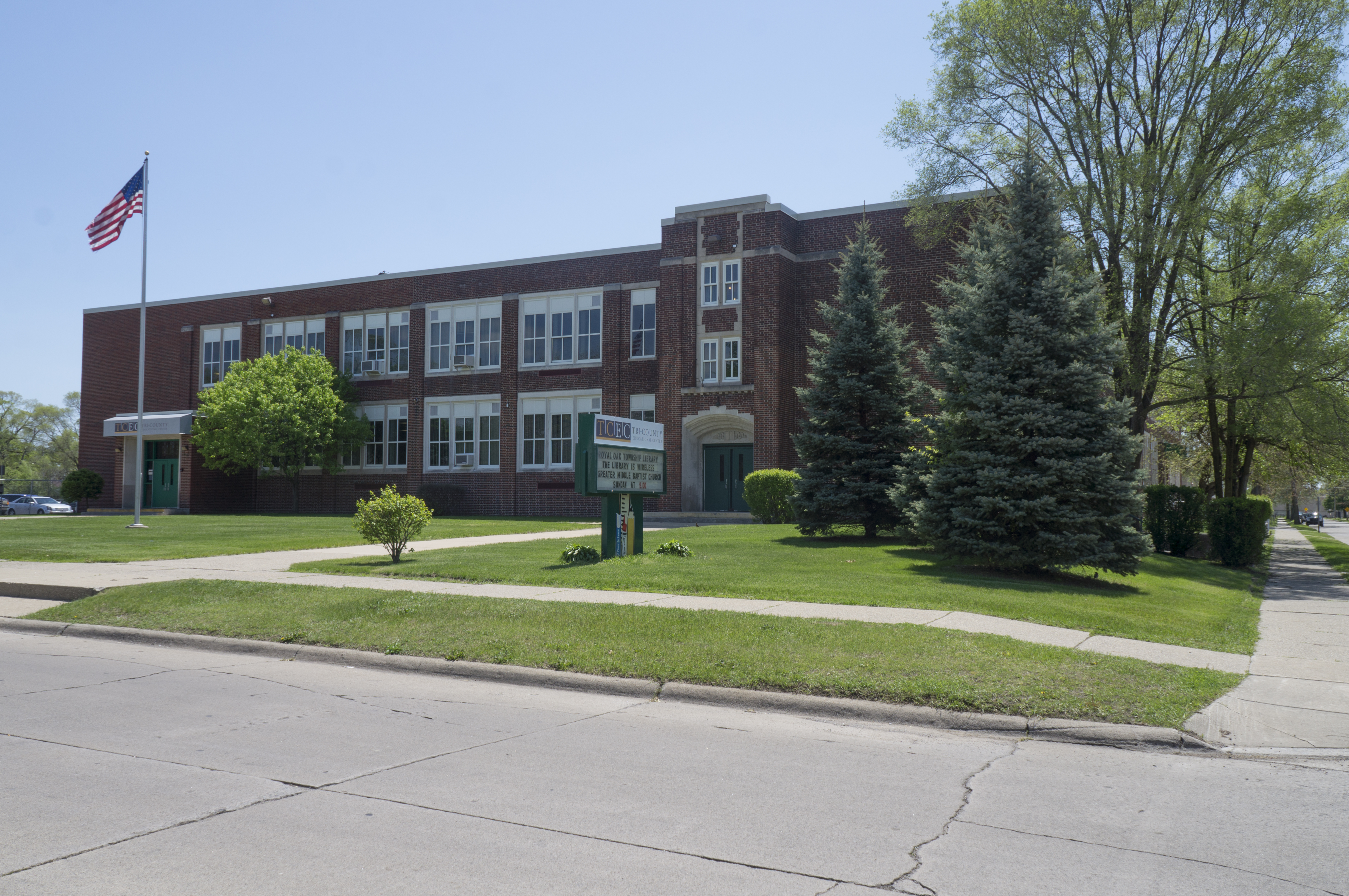 Tri-County Educational Center in Royal Oak Charter Township, Michigan